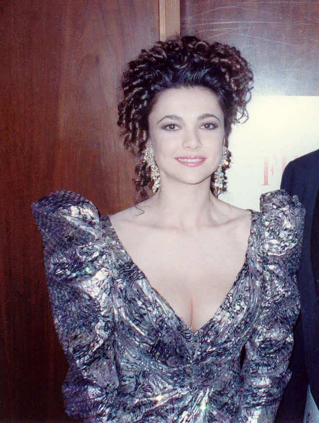 Photo of Emma Samms taken at the 62nd Academy Awards 3/26/90 - Permission granted to copy, publish or post but please credit "photo by Alan Light" if you can